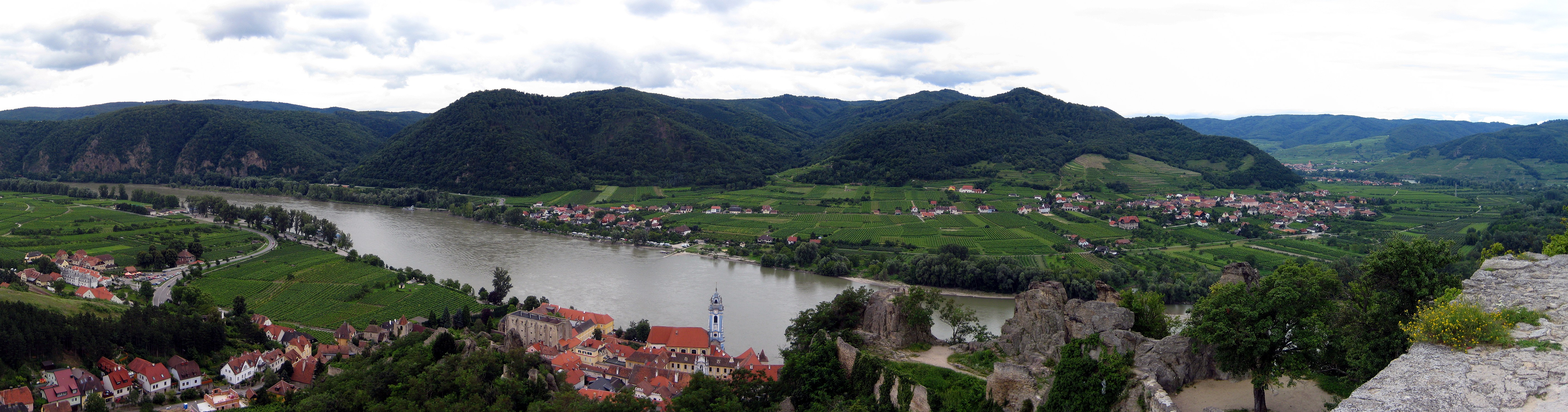 Dürnstein Panorama from the castle ruins.